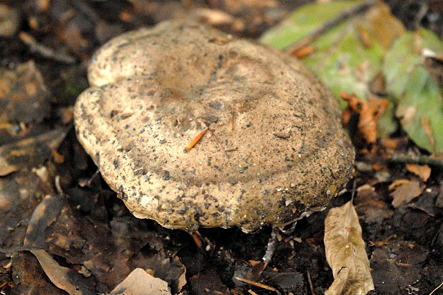 Lactarius spec. The determination of the species shown in this picture has been verified.